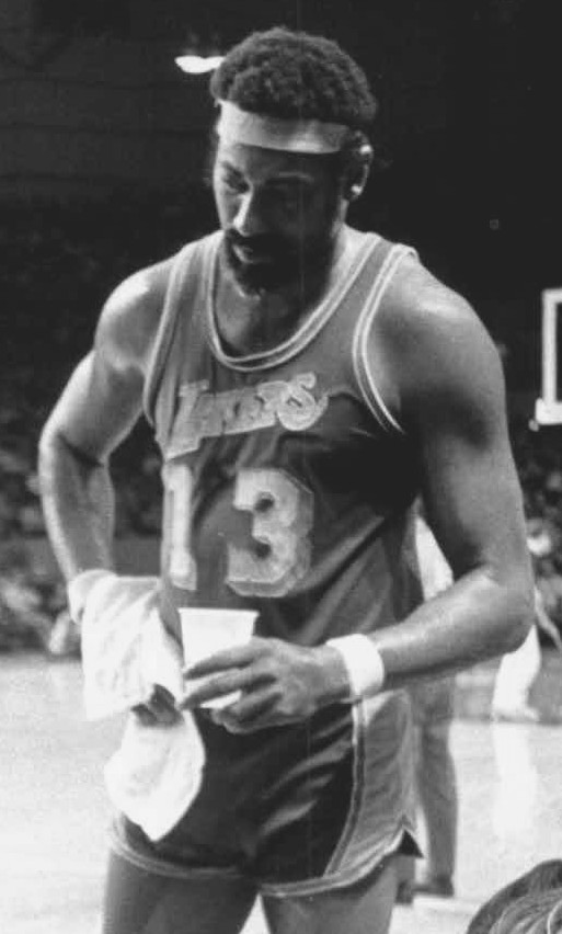 Professional basketball player Wilt Chamberlain